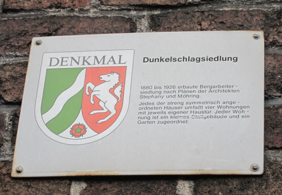 Siedlung Dunkelschlag in Sterkrade , sign explainig the monuments